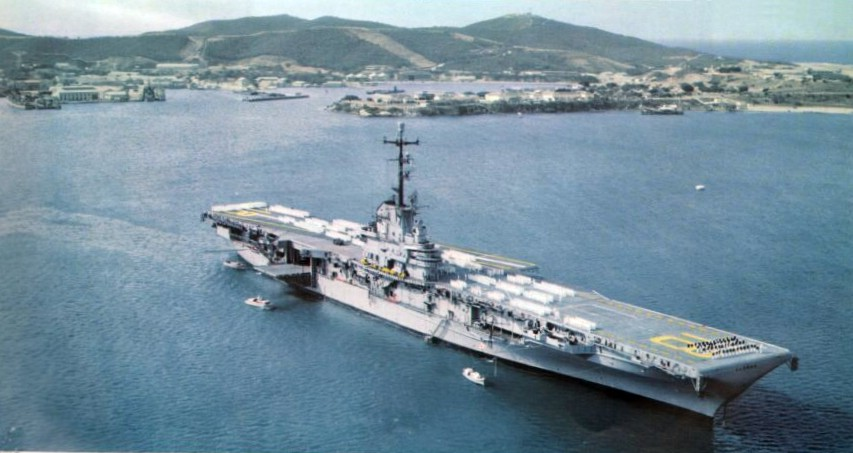 The U.S. Navy aircraft carrier USS Wasp (CVS-18), in 1958.